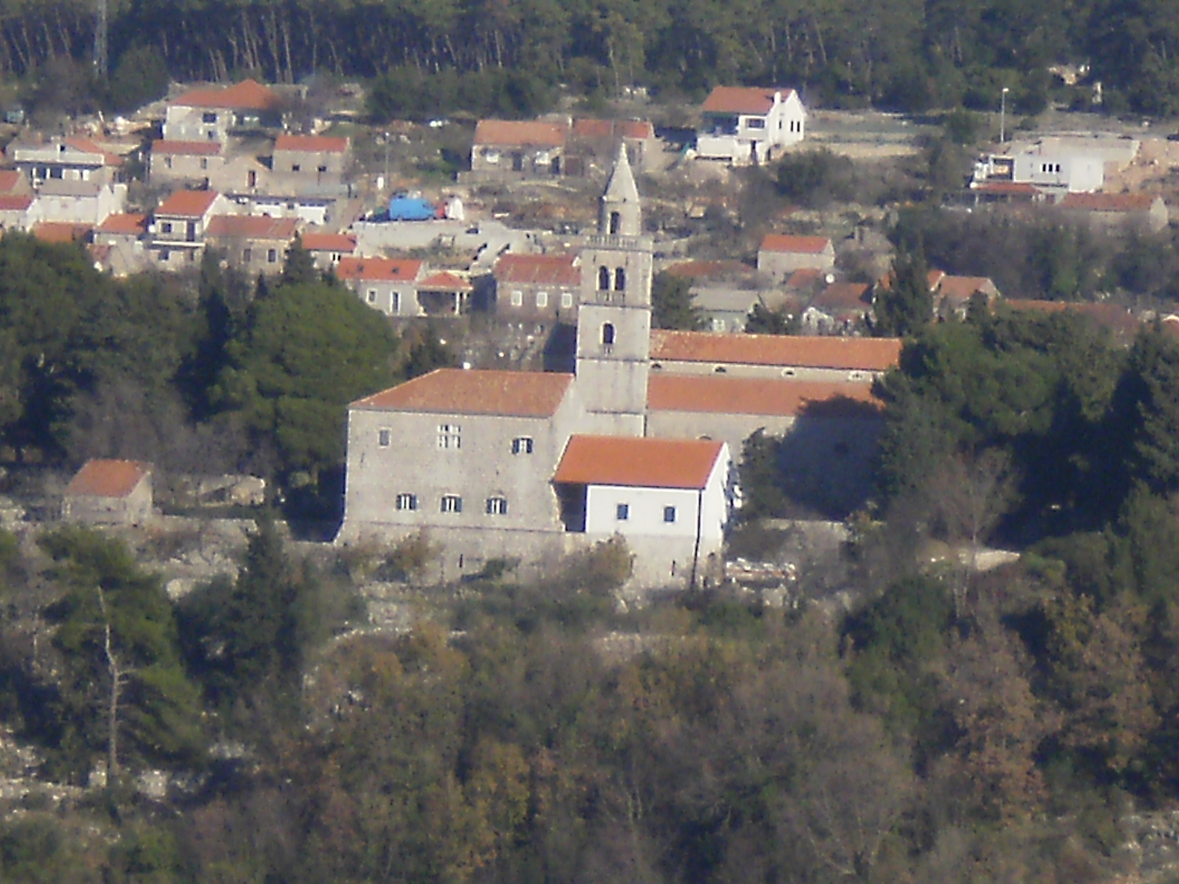 Franciscan monastery , Kuna Pelješka OLYMPUS DIGITAL CAMERA